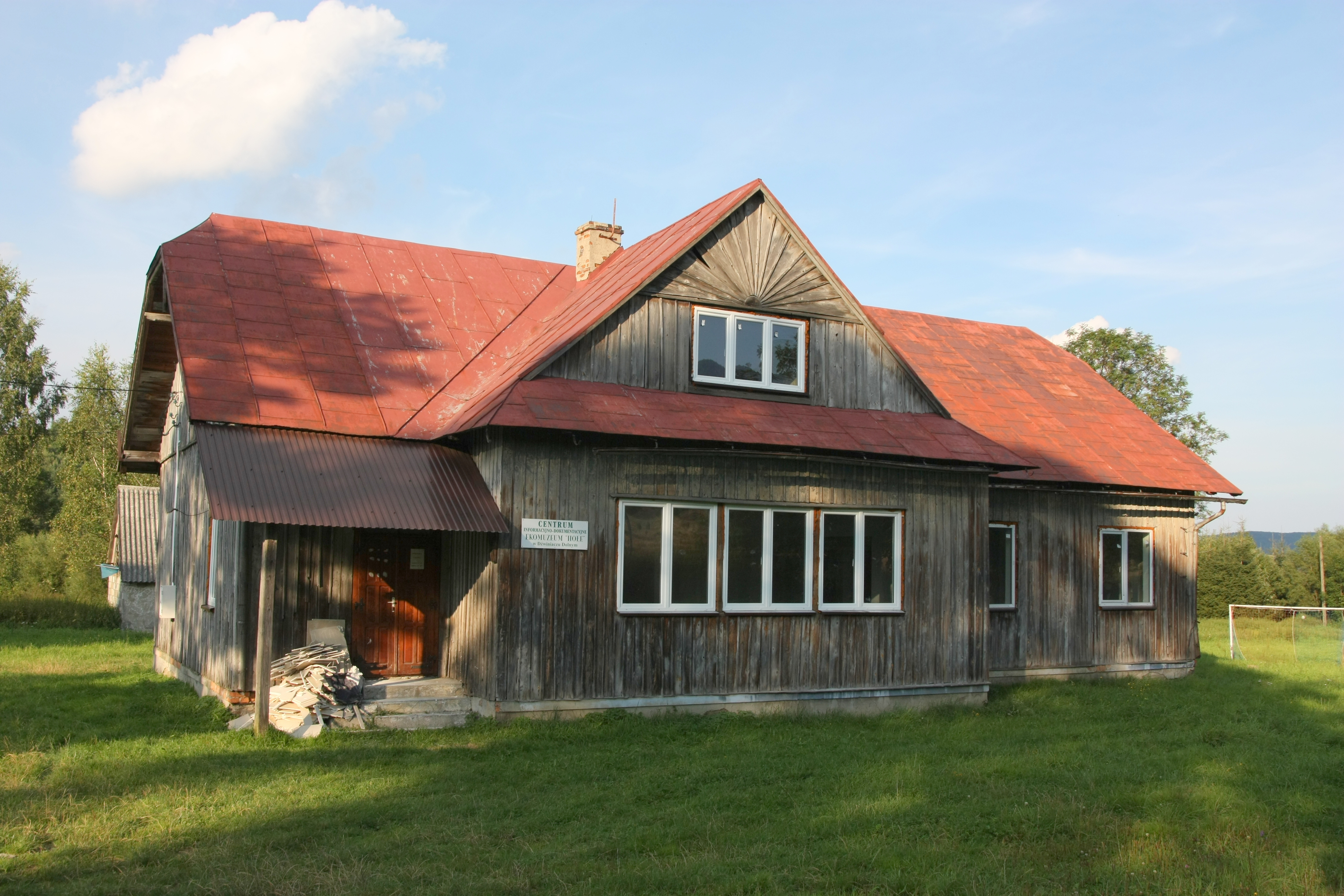 Museum in Dźwiniacz Dolny.